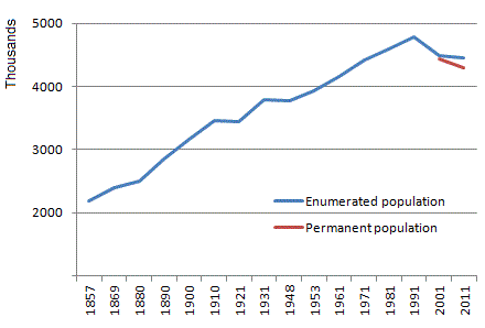 Croatian population in 1857-2011 censuses